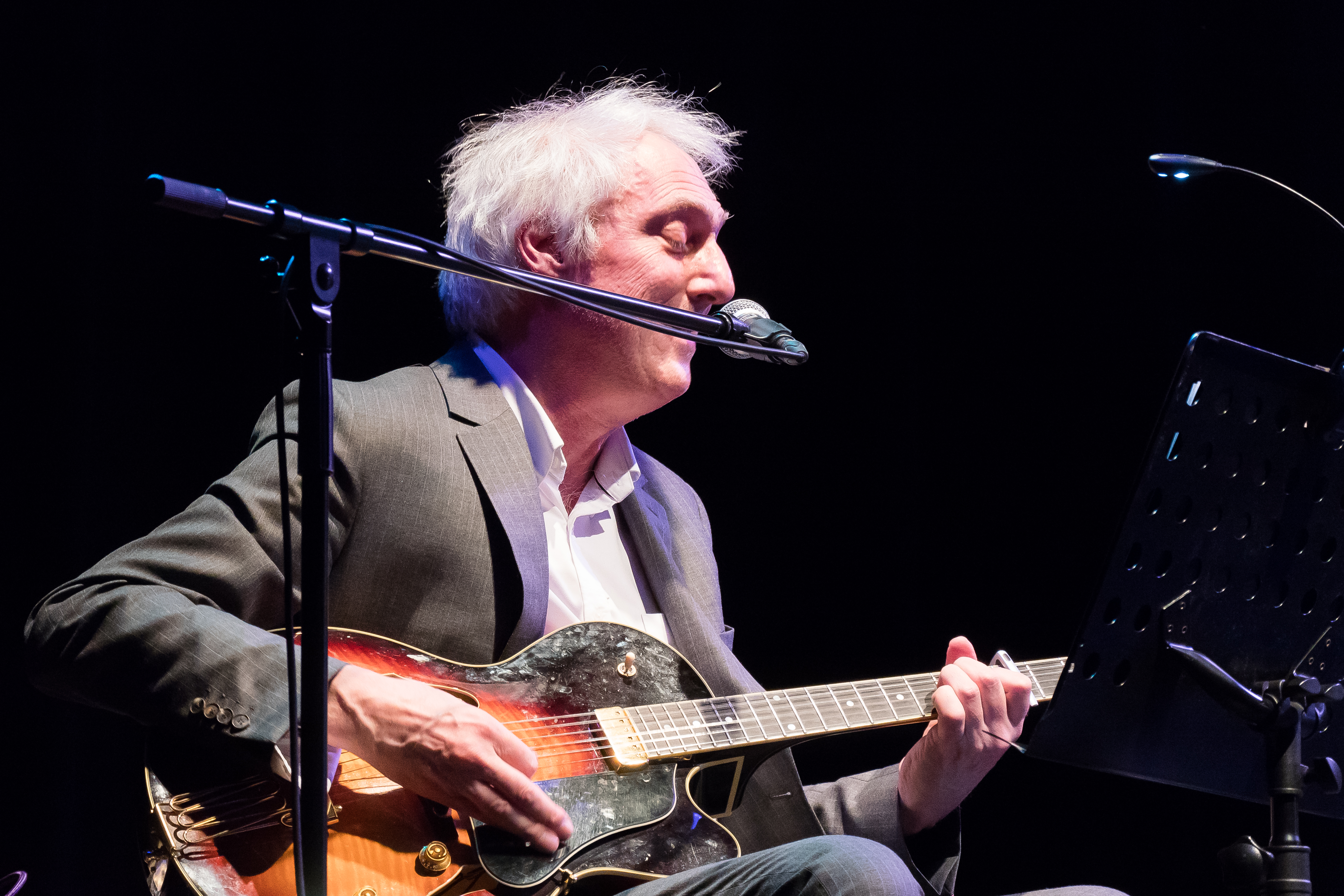 Peter Blegvad with Slapp Happy at Mt. Rainer Hall, Shibuya, Tokyo, 24 February 2017